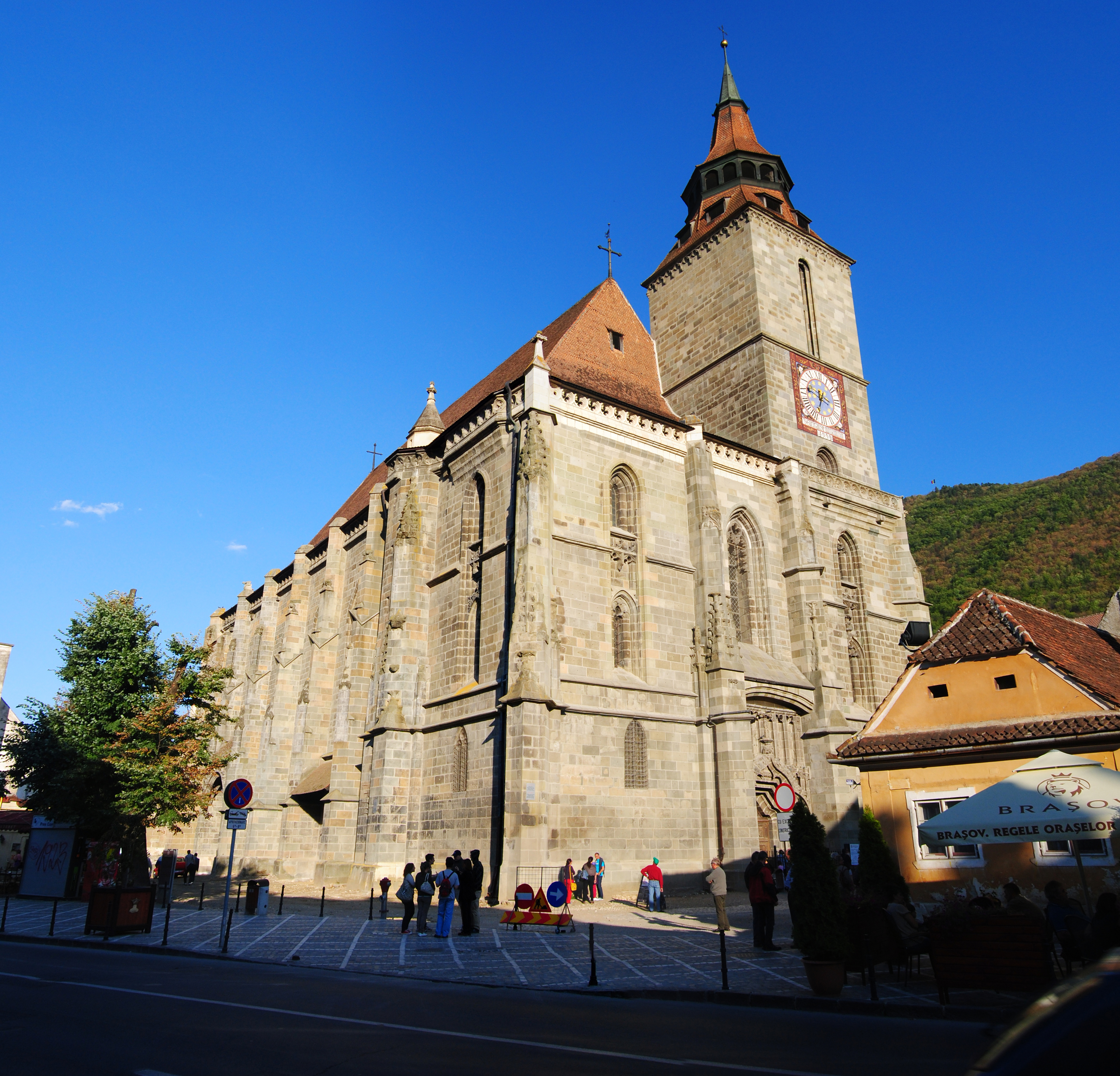 Black Church from Brașov, Romania